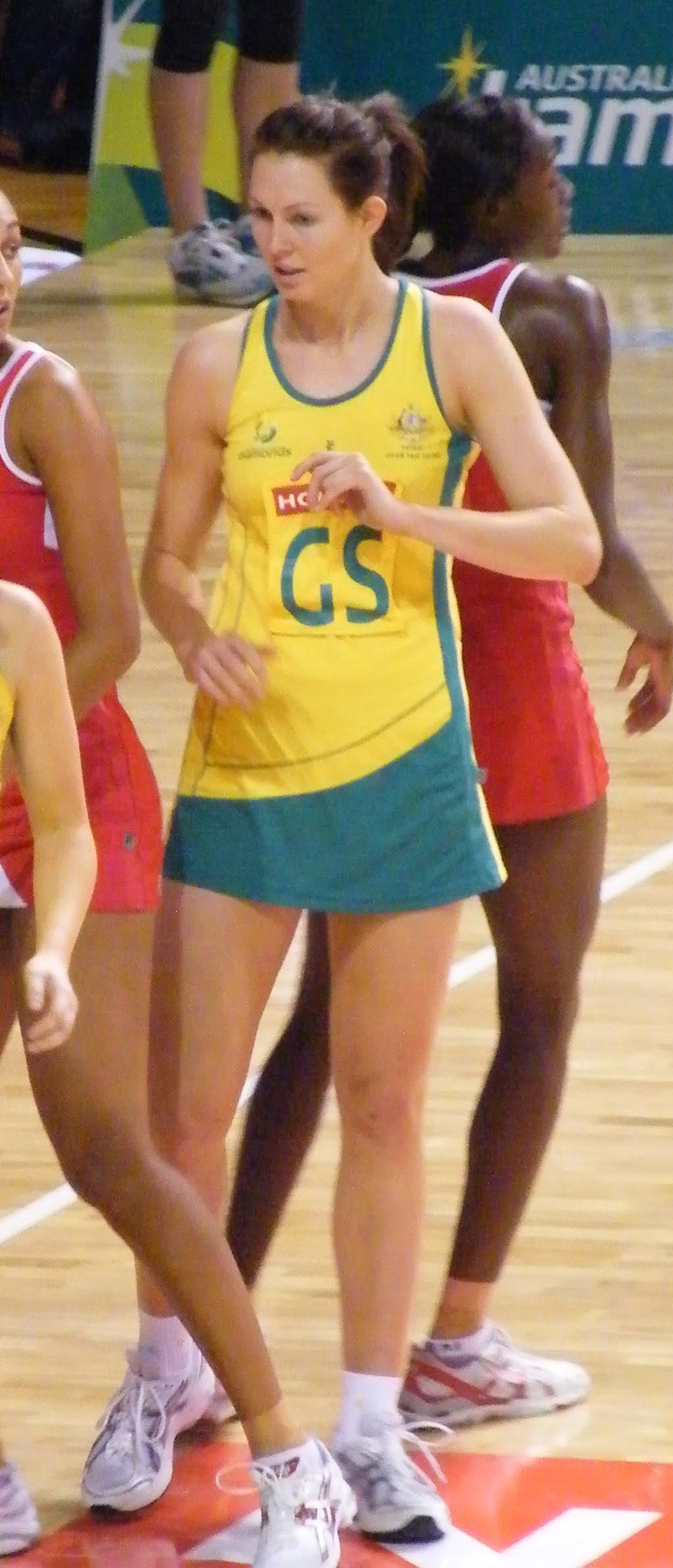 Australia v England Netabll Test - Adelaide, October 2008.